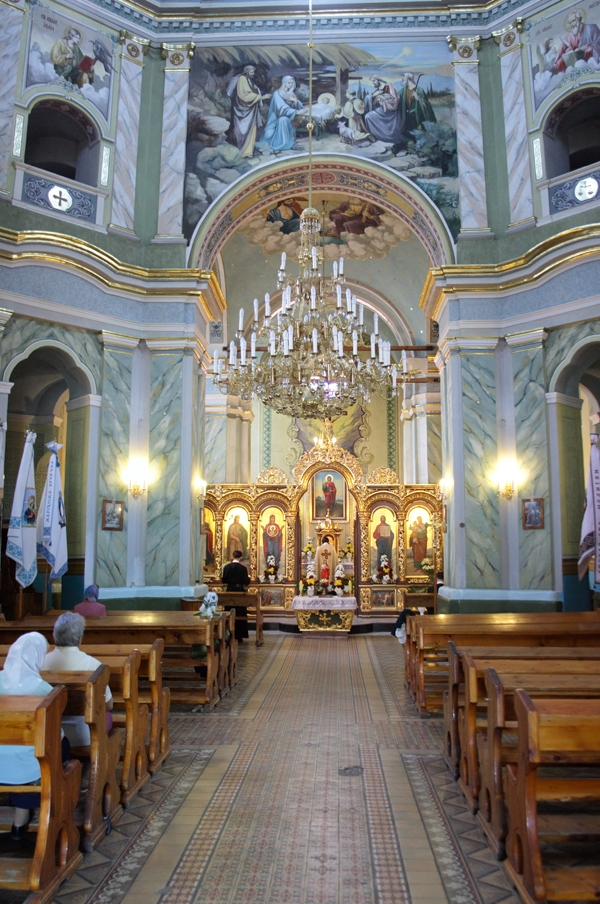 Holy Spirit Church in Chervonohrad (1750s)